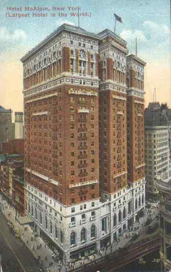 Postcard of the Hotel McAlpin in New York City from 1914